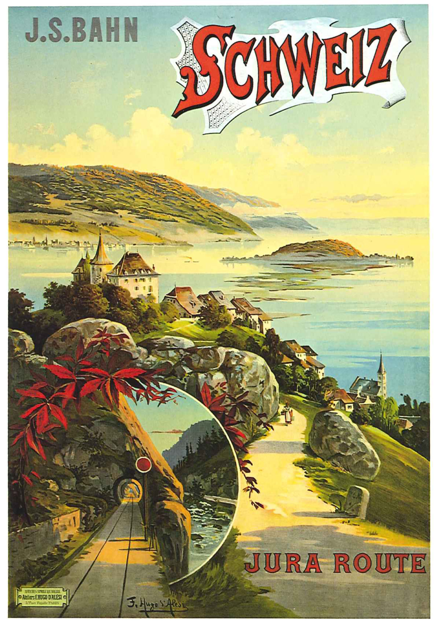 Poster advertising tourism by train along the Swiss Jura-Simplon-Bahn, 1895. Artwork by Hugo d'Alési. Original is in the Museum für Gestaltung in Zürich.